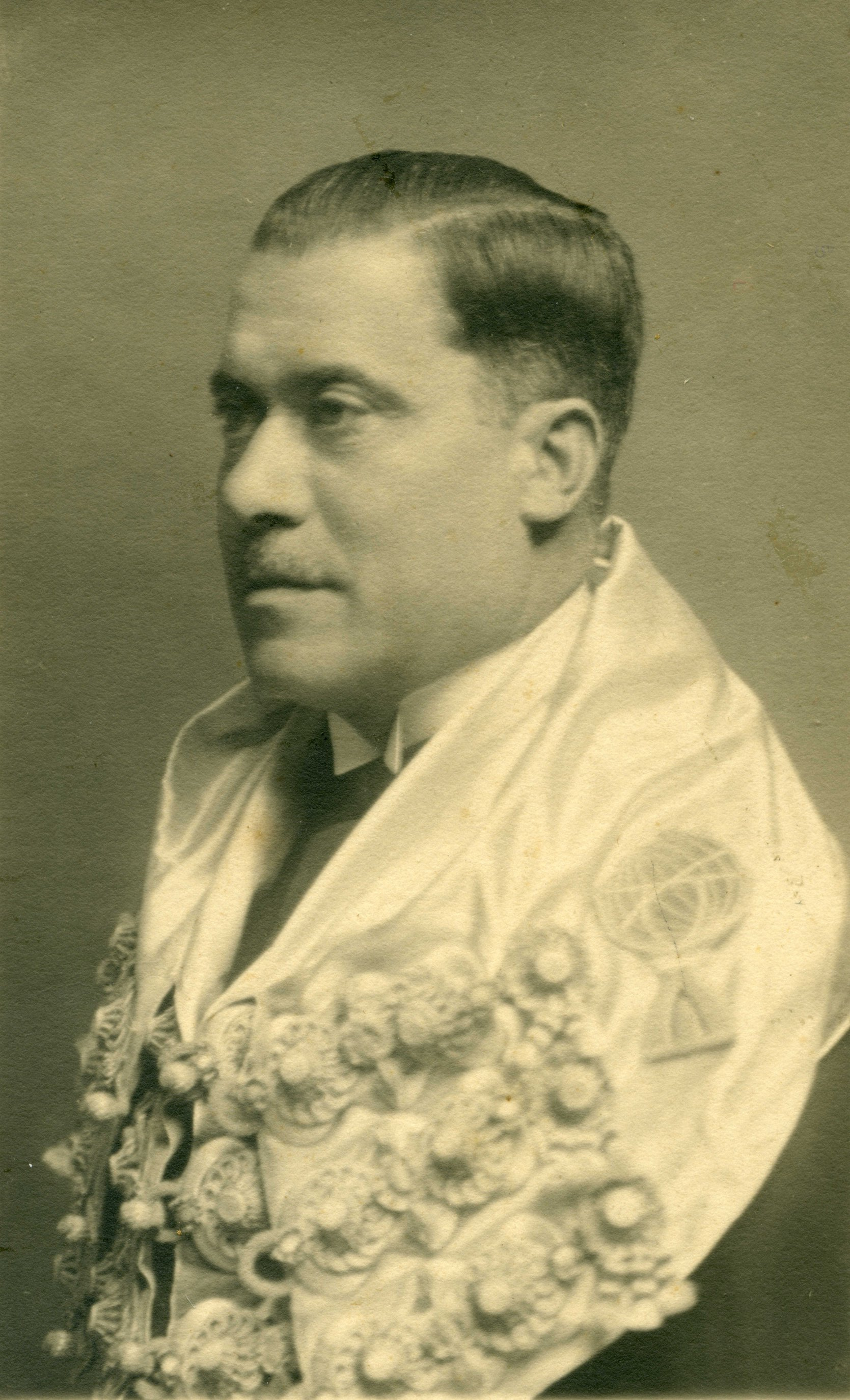 Portrait of Aureliano de Mira Fernandes